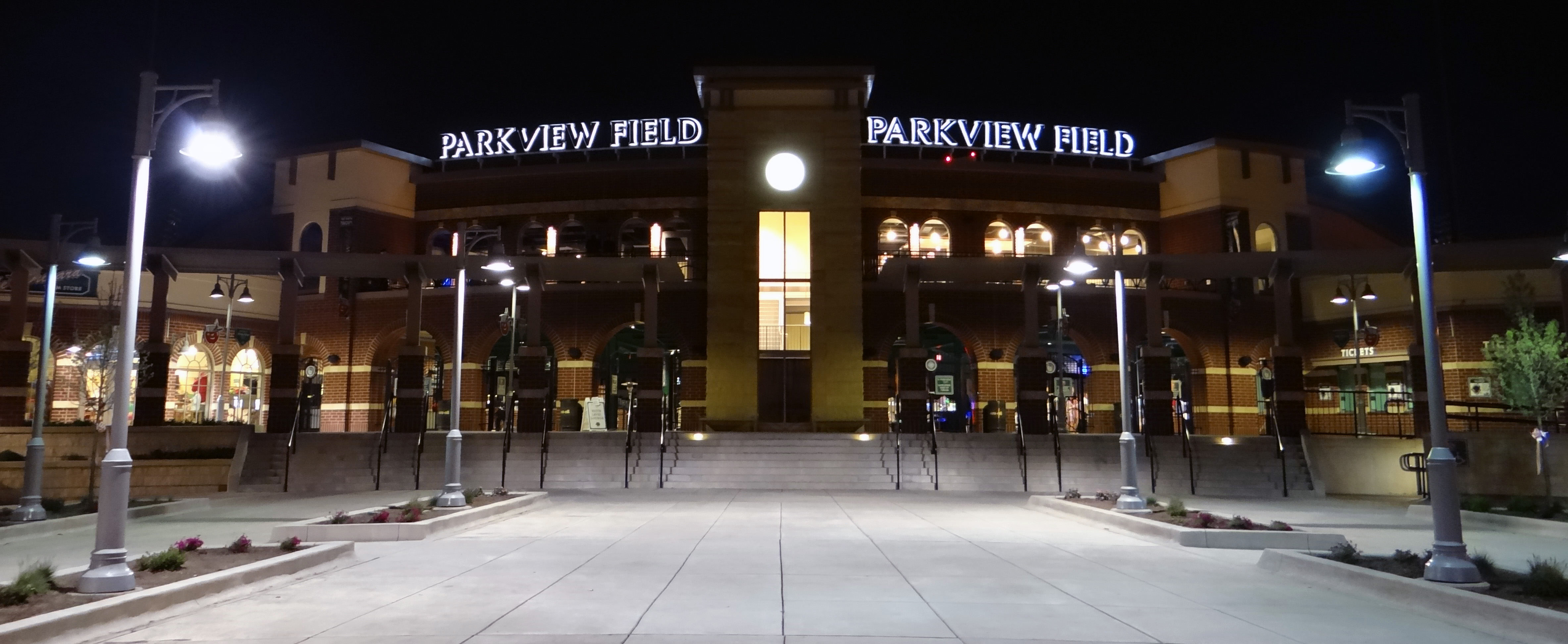 The main entrance plaza into Parkview Field in Fort Wayne, Indiana.